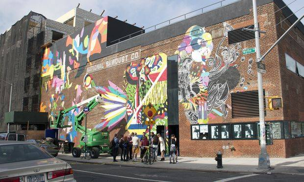 The exterior of the music venue National Sawdust